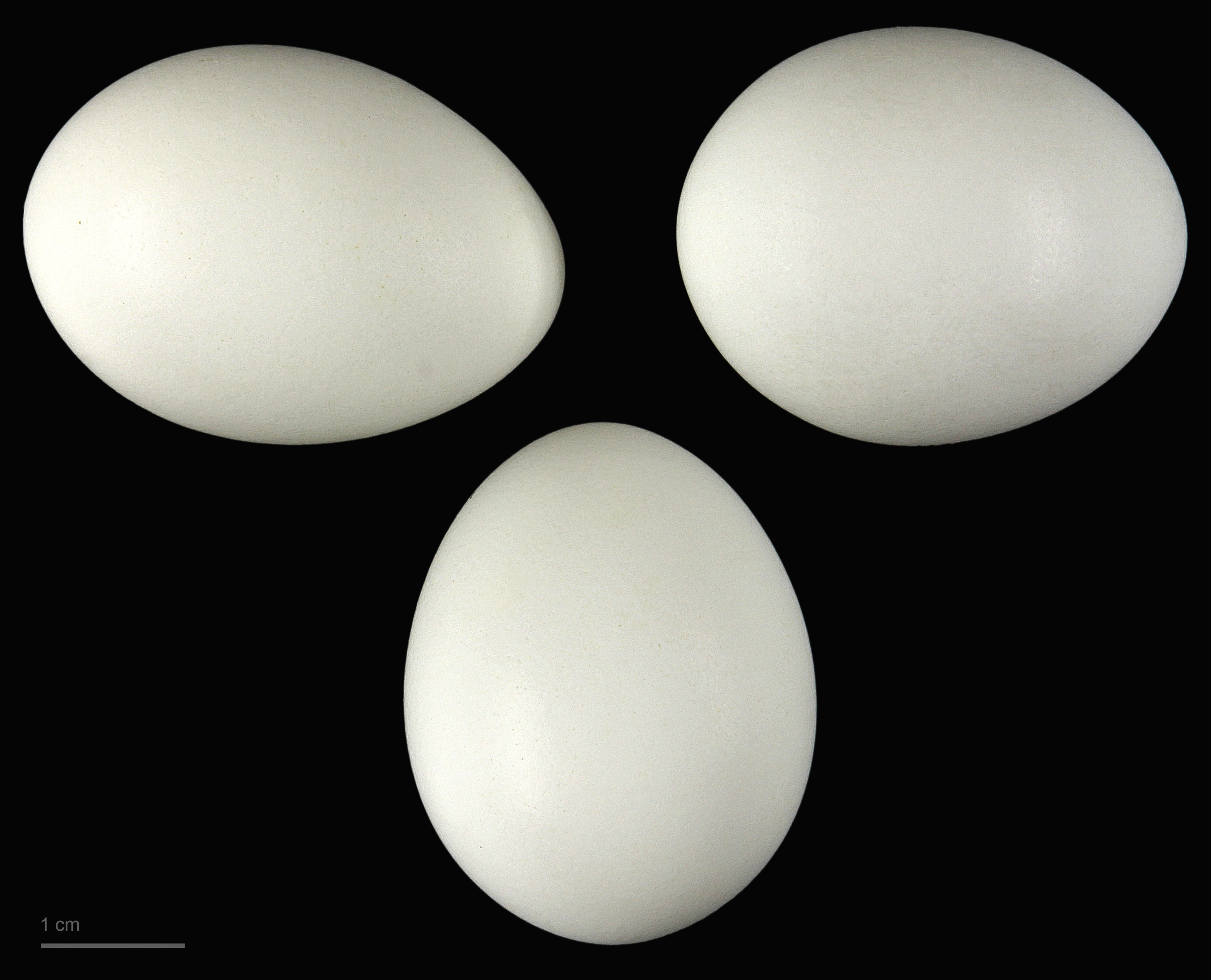 Eggs of little bittern Three specimens of the same spawn ; collection of Jacques Perrin de Brichambaut.